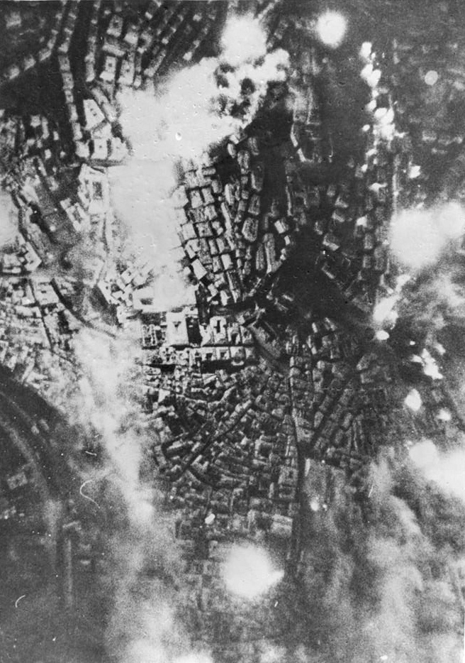 Blized area in Genoa.Dammage resulting from repeated R.A.F. raids on Genoa photographed by the R.A.F. film production unit during the november 13/14 blitz on Italy's important industrial city. War factories, shipbuilding works, dockside instalations, warehouses, goods yards and railway tracks were damaged. The Ansaldo fitting-out yards were hit again in several places by H.E. and incendiary bombs. The goods station near Stazione Brigniole was damaged. The film unit worked by the light of incendiary bombs and the raging fires they started.